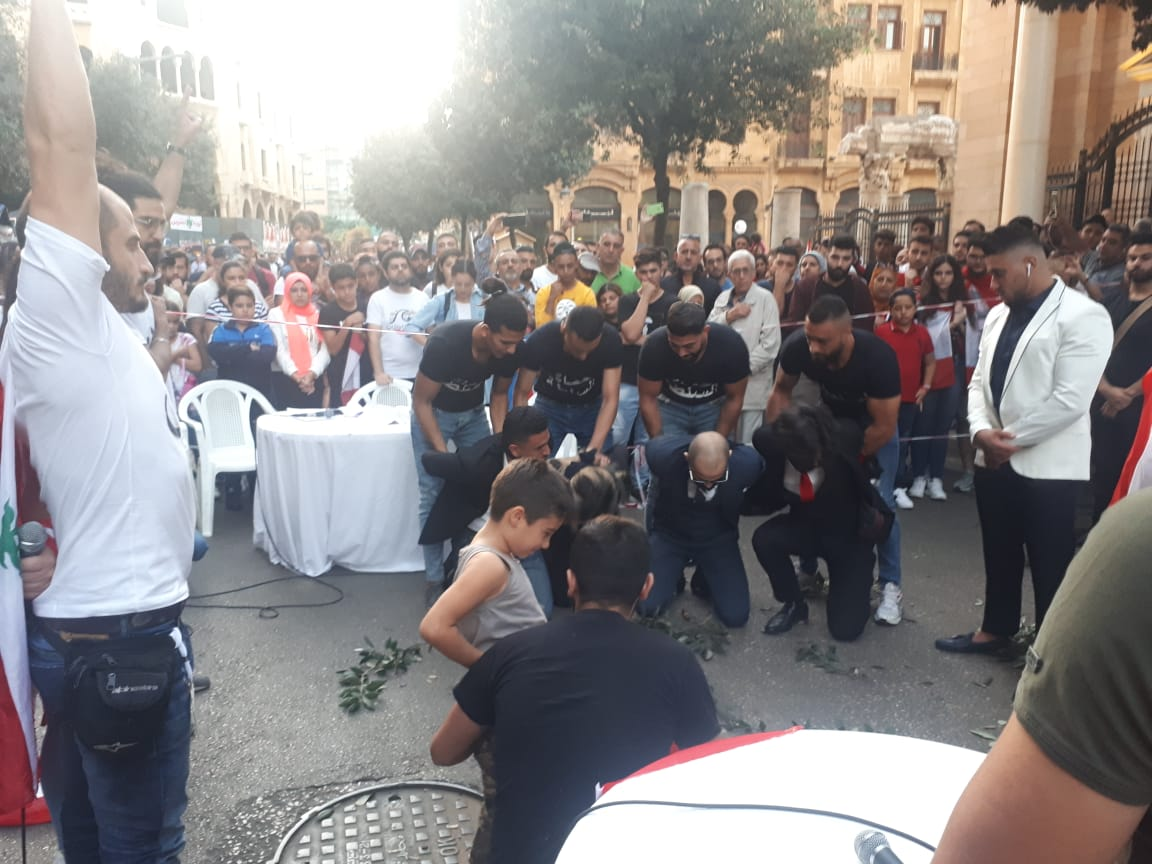 Lebanese protests, 17 November 2019 Beirut City